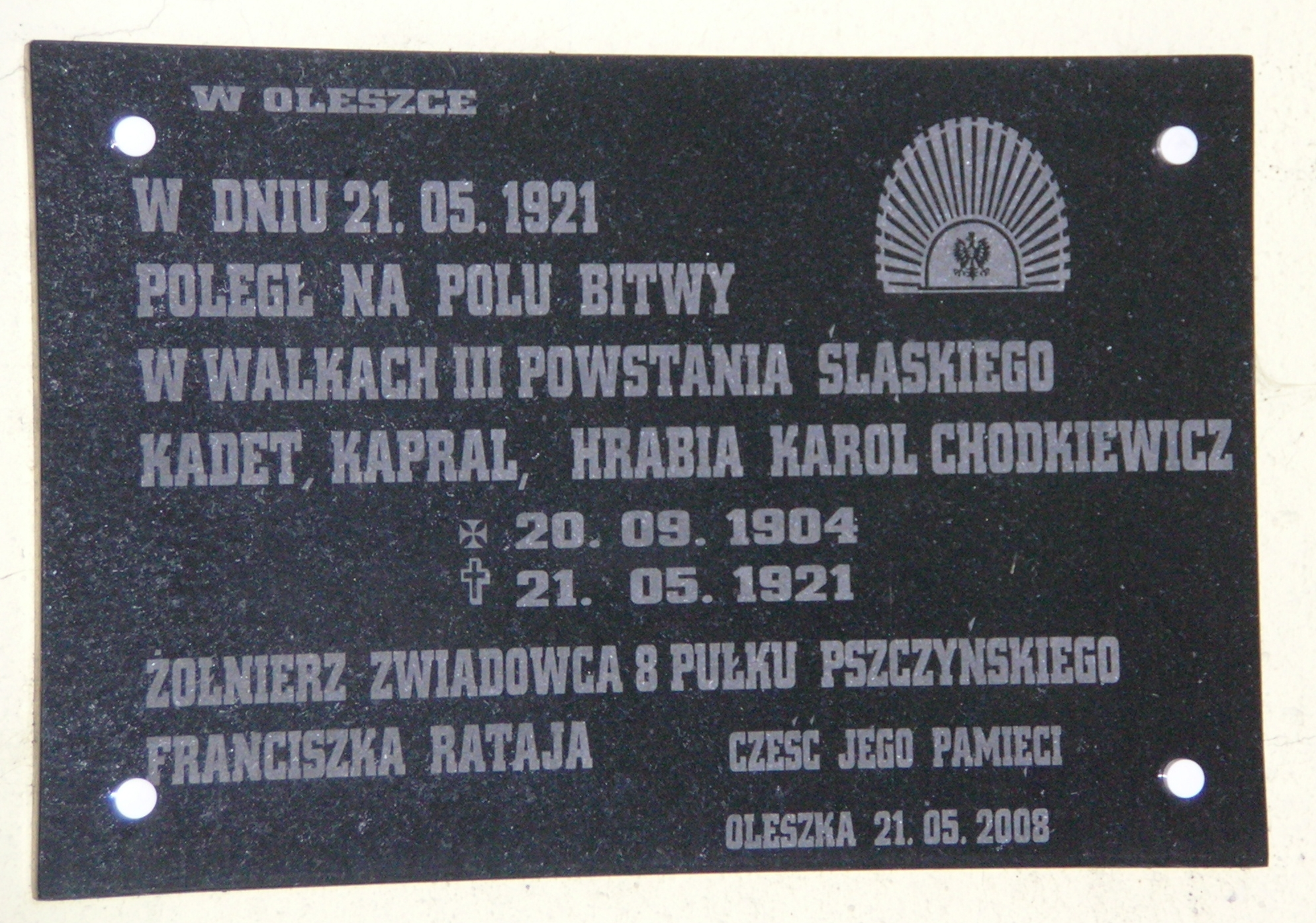 Epitaph of Karol Chodkiewicz in Oleszka (Opole Silesia)